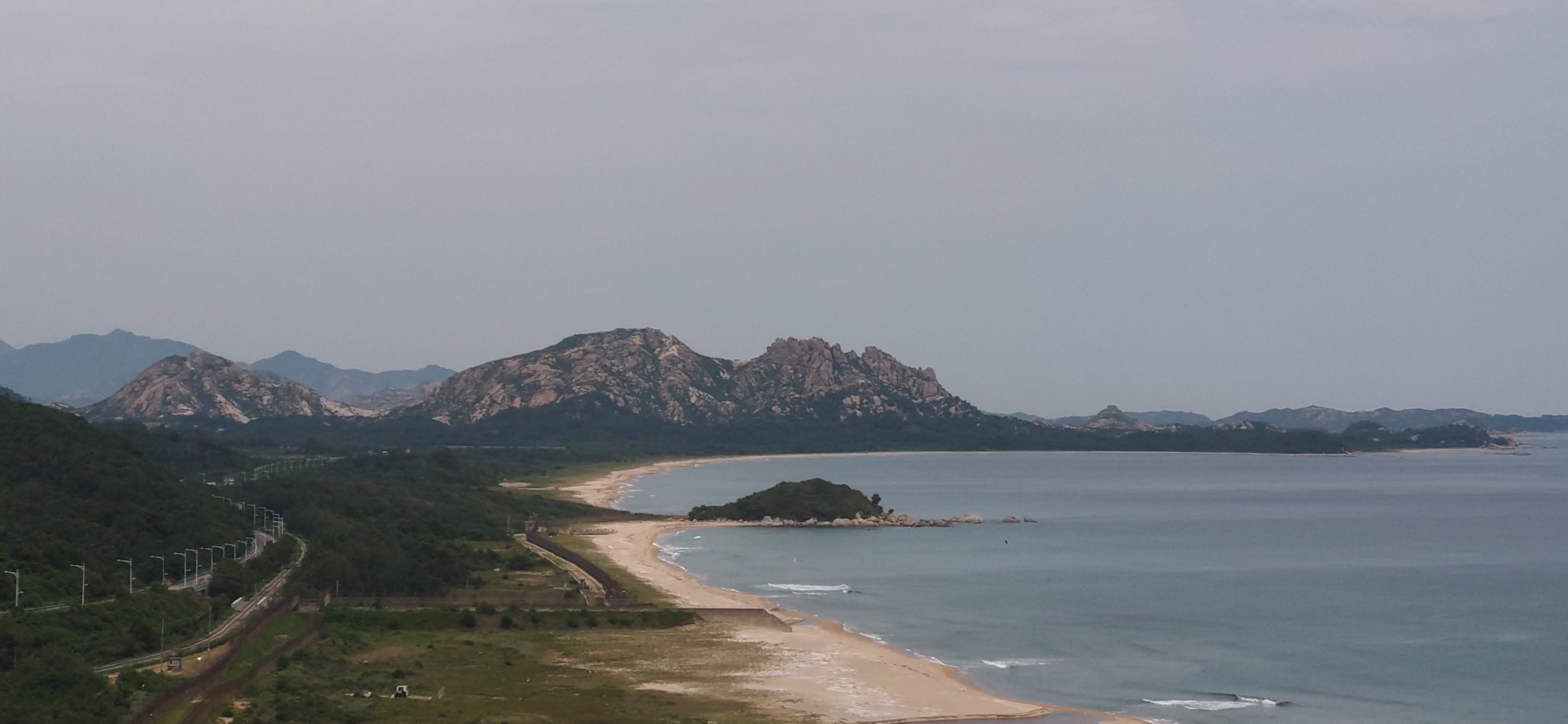 Kumgan-san haegumgang